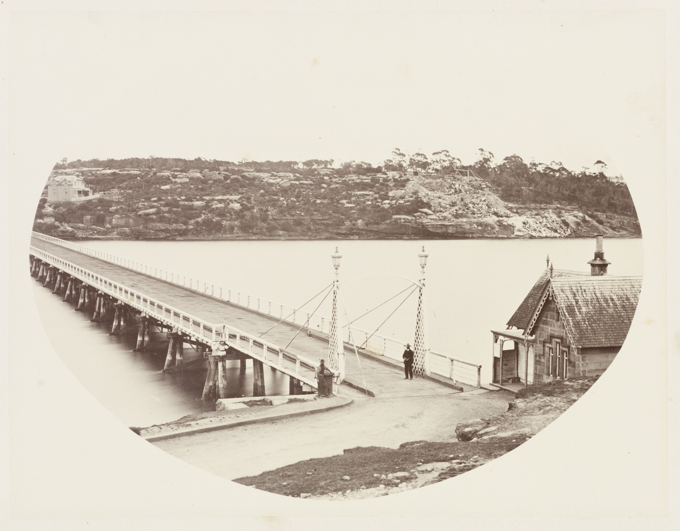 144. Glebe Island Bridge SH 619-621